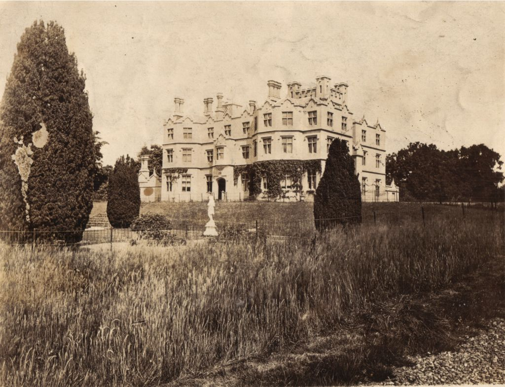 Photo of Castleshane. Date unknown. (before 1920 fire)